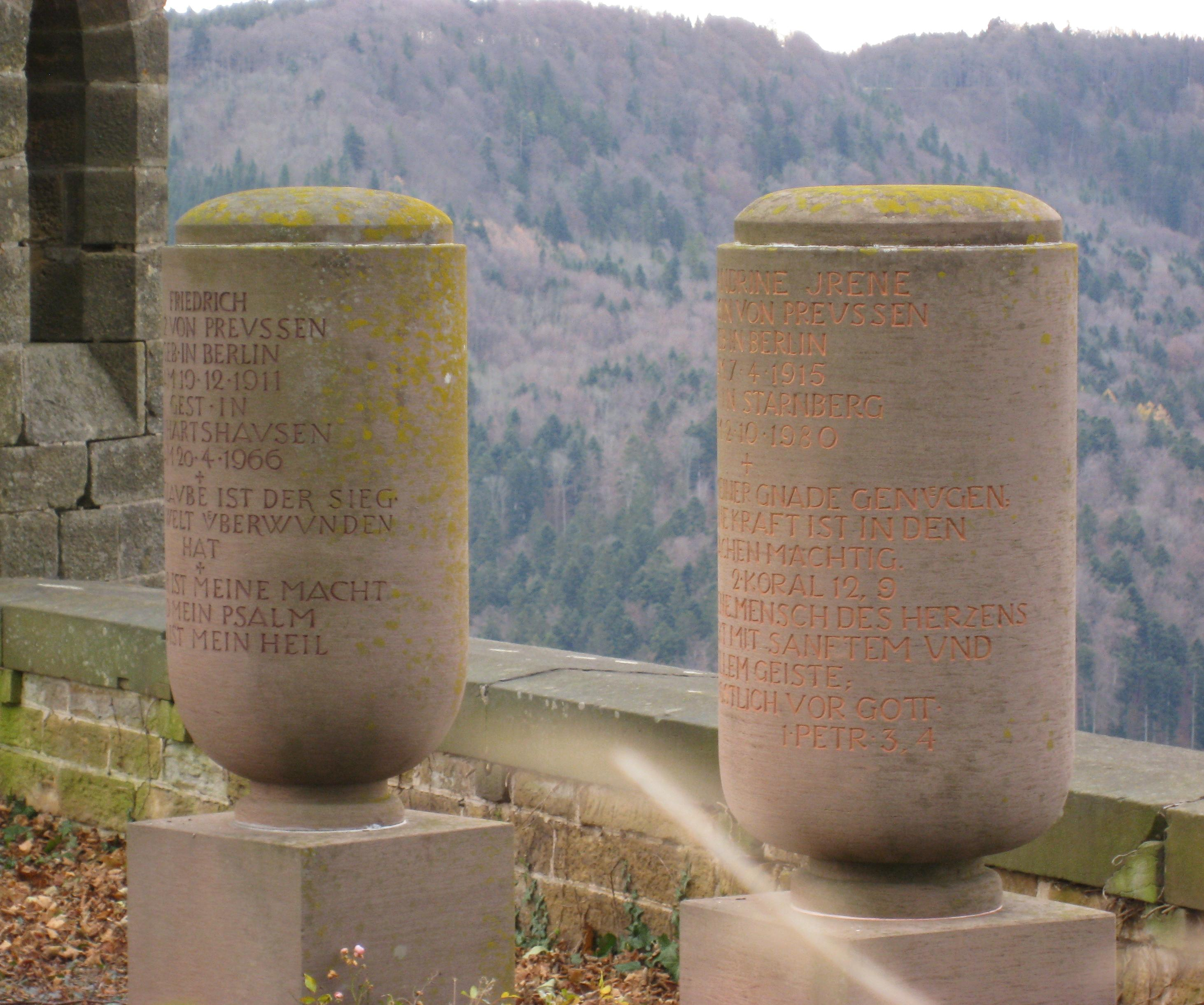 Graves of Prince Friedrich von Preussen (left) and Princess Alexandrine Irene von Preussen; Burg Hohenzollern, Baden-Württemberg, Germany